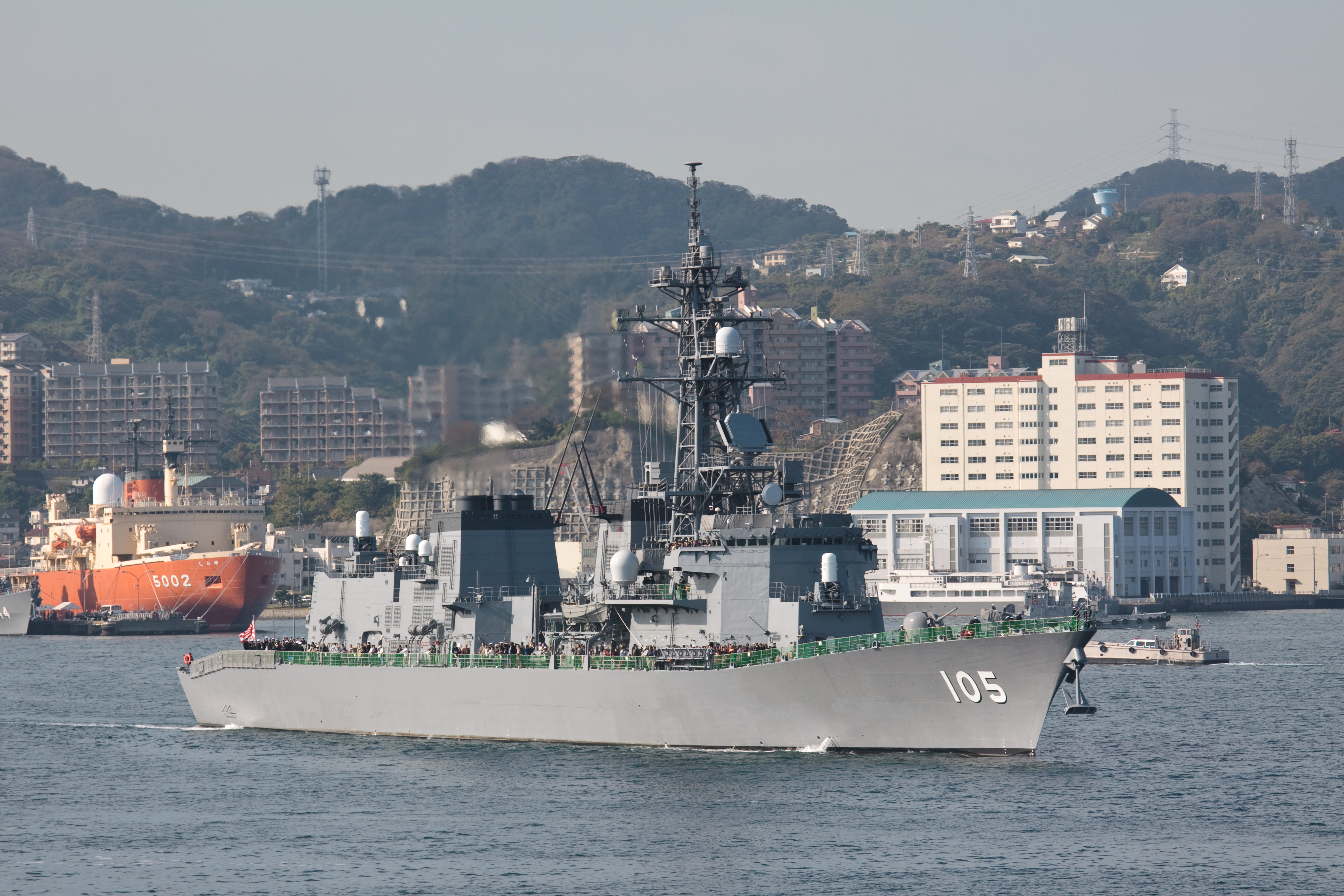 JS Inazuma (DD-105) departs the Yokosuka Naval Base. Canon EOS 50D + EF 70-300mm F4.5-5.6 DO IS USM